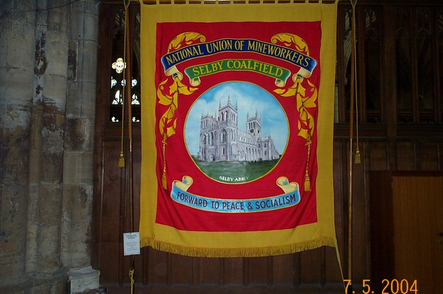 Selby Coalfield NUM Banner The Selby Coalfields, National Union of Mineworkers Banner displayed within the Abbey. A reminder of the area's short period of being a major coal producer. (just over 20 years.)